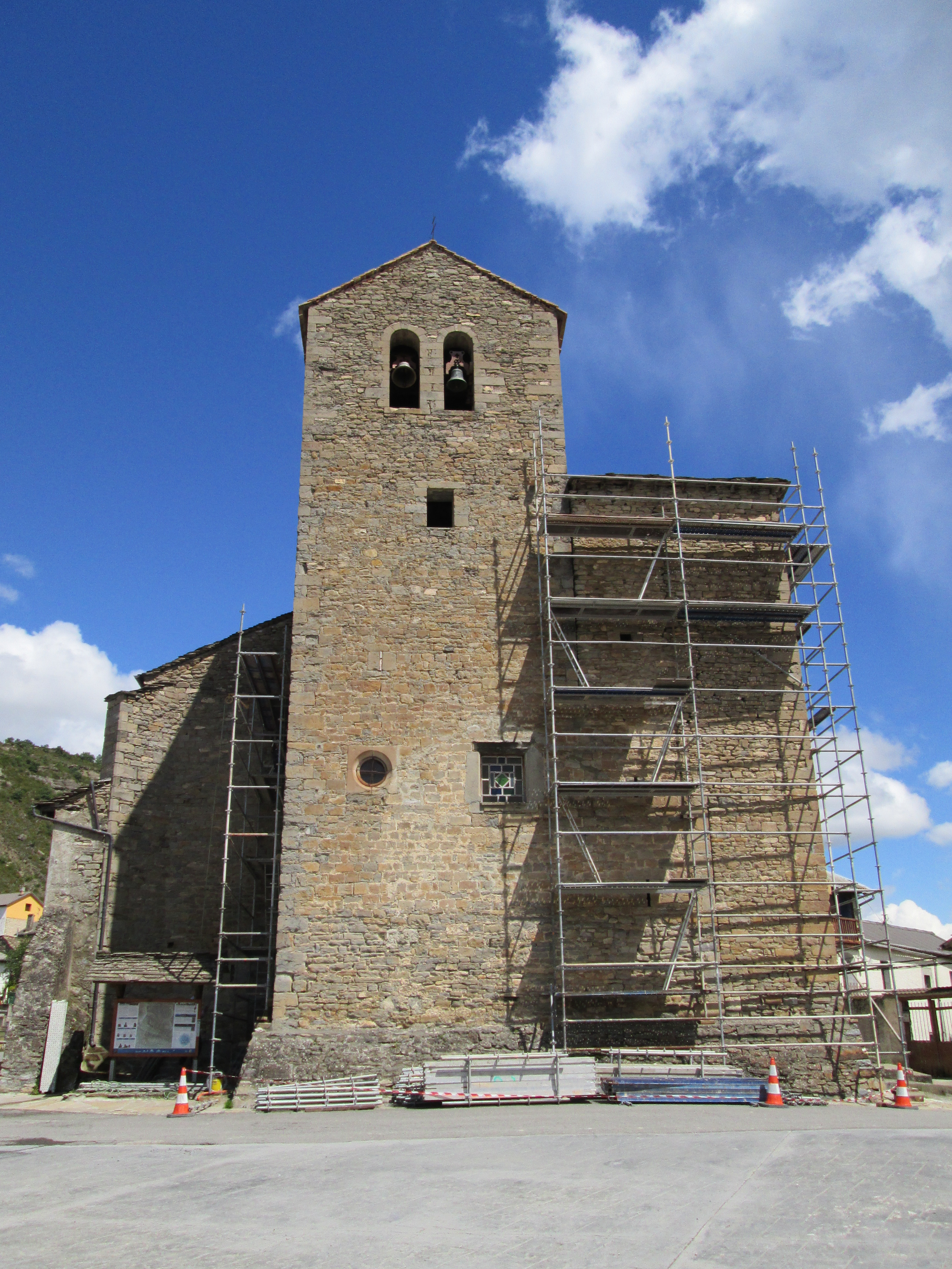 San Lorenzo Church, Yebra de Basa, Aragon (work underway, 2014).